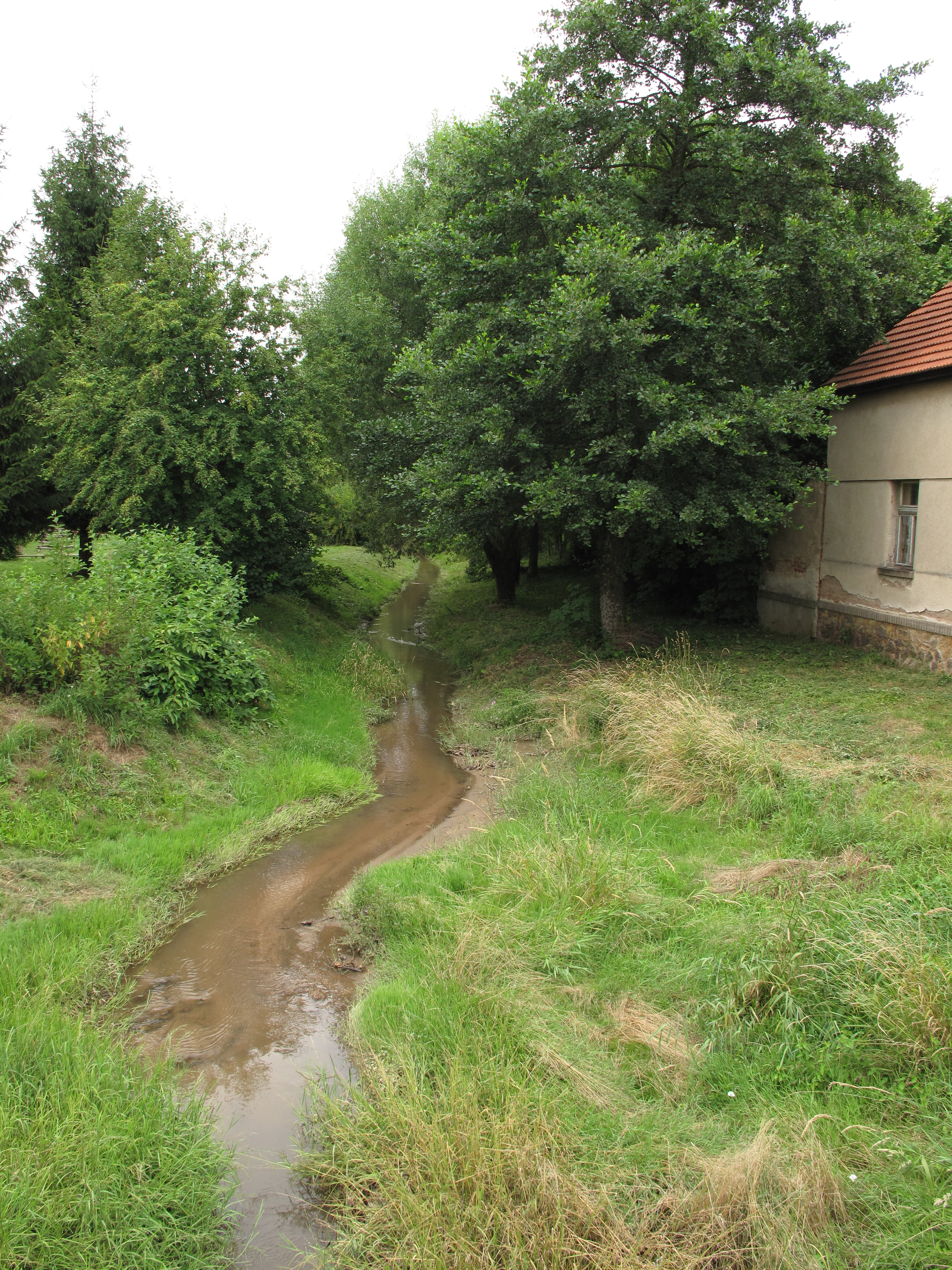 Chotýšský Stream in Kšely village, Kolín District, Czech Republic.